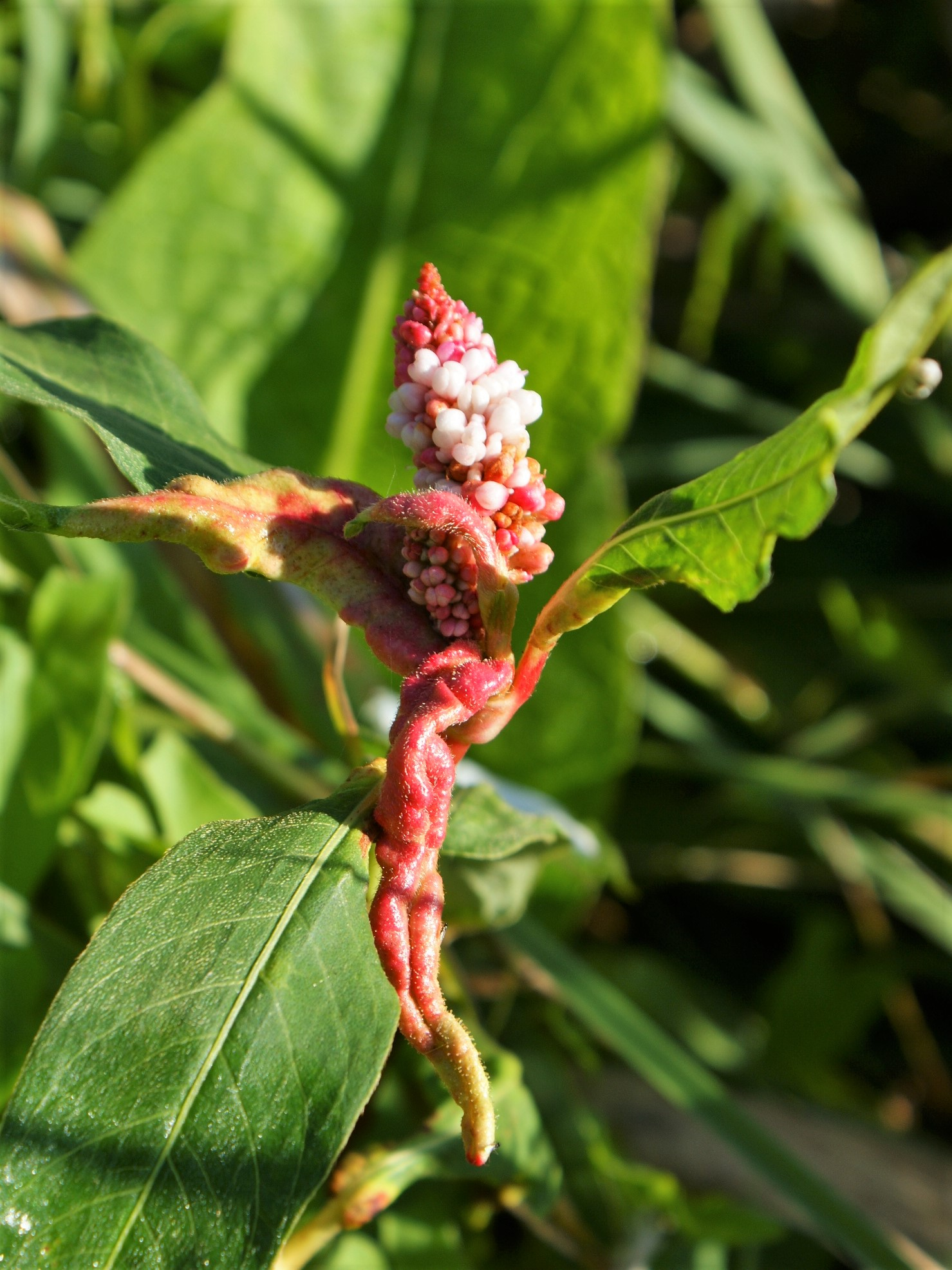 Wachtiella persicariae on Persicaria amphibia in Augustowo (powiat międzychodzki), Poland